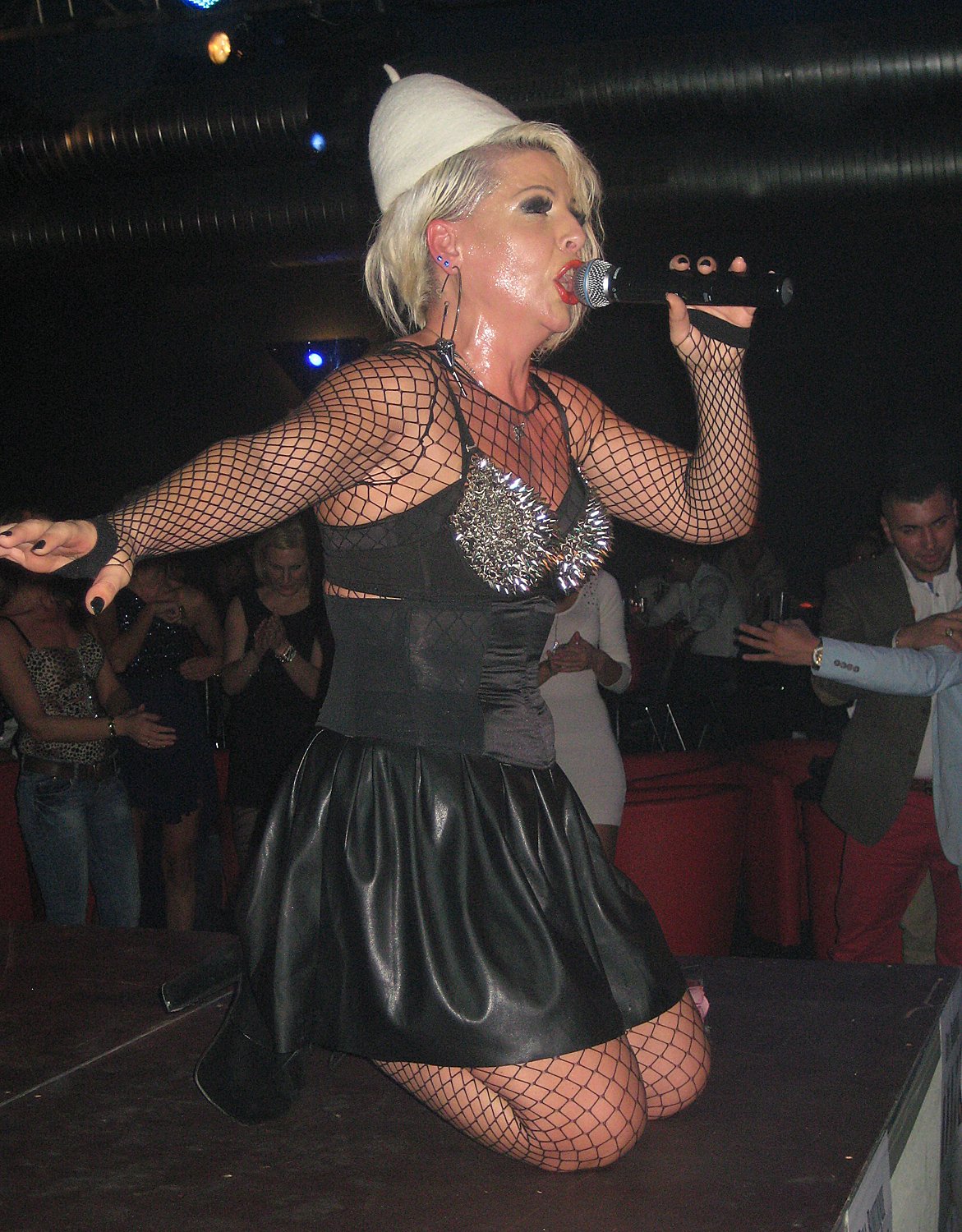 Aurela Gaçe at a performance in Zurich